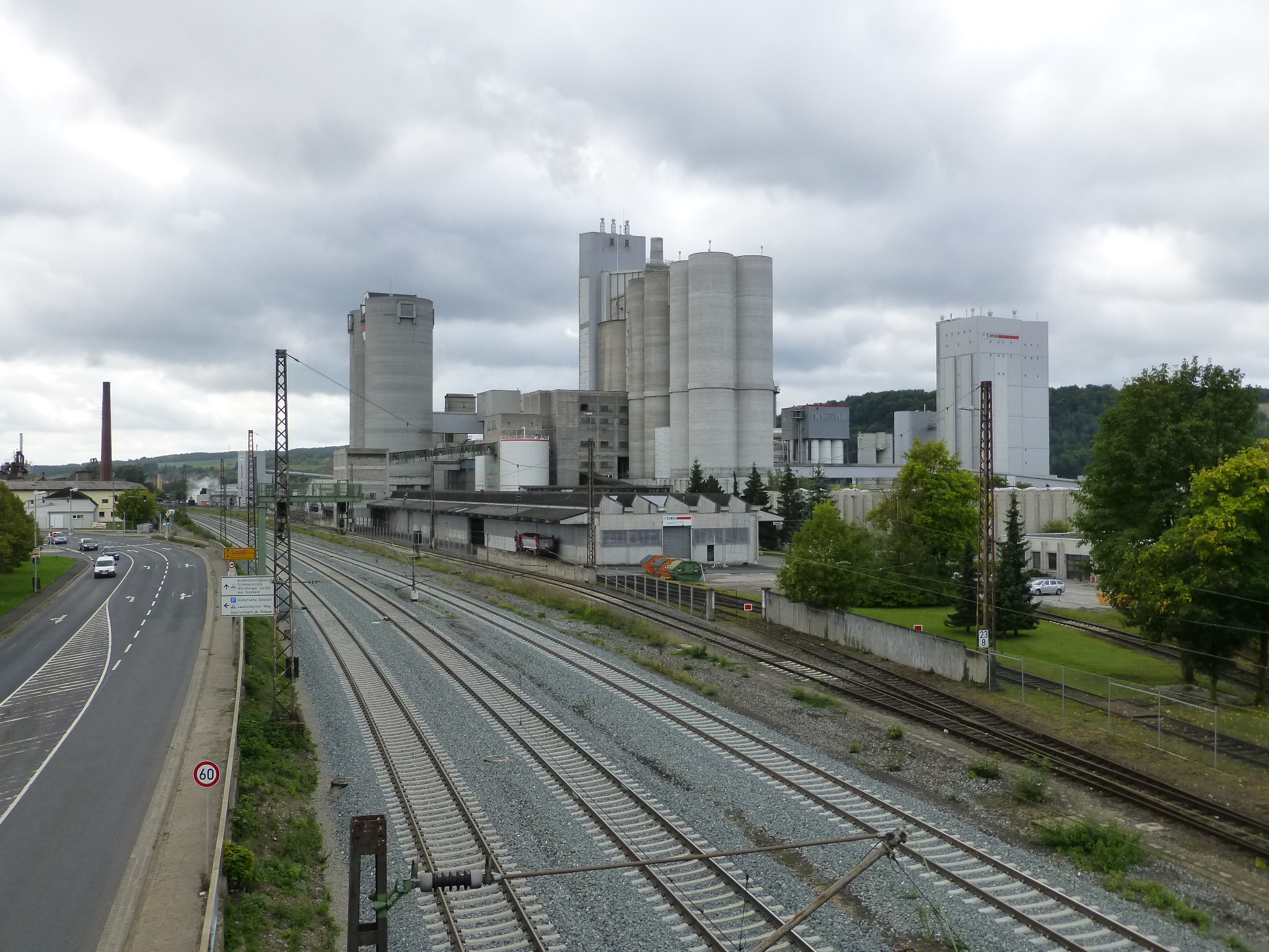 The modern side of Karlstadt, Lower Franconia.